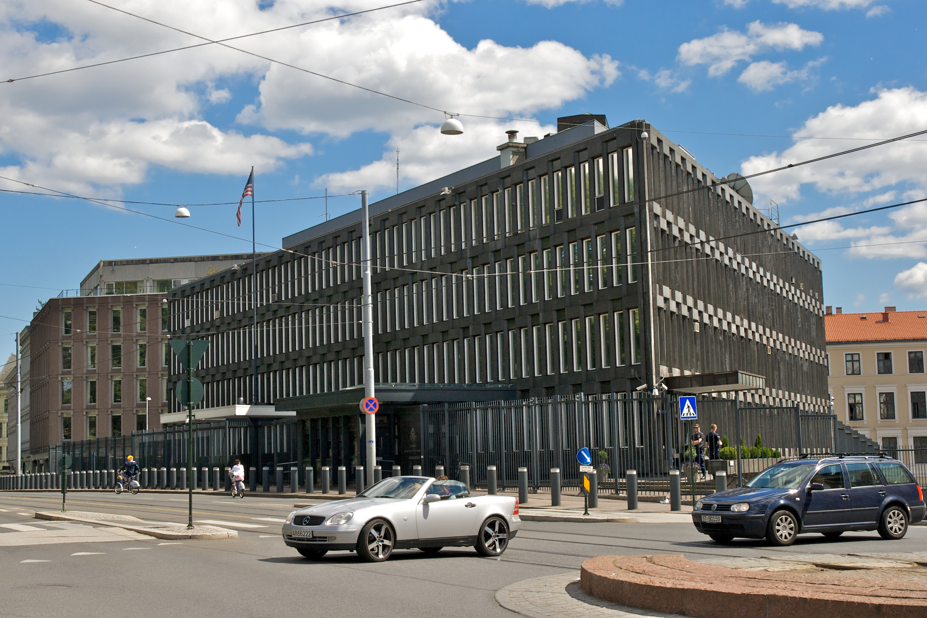 U.S. Embassy, Oslo, Norway.